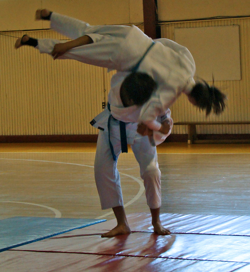 Judoka demonstrating, Kata guruma Judo throw during a festival of Japanese culture.